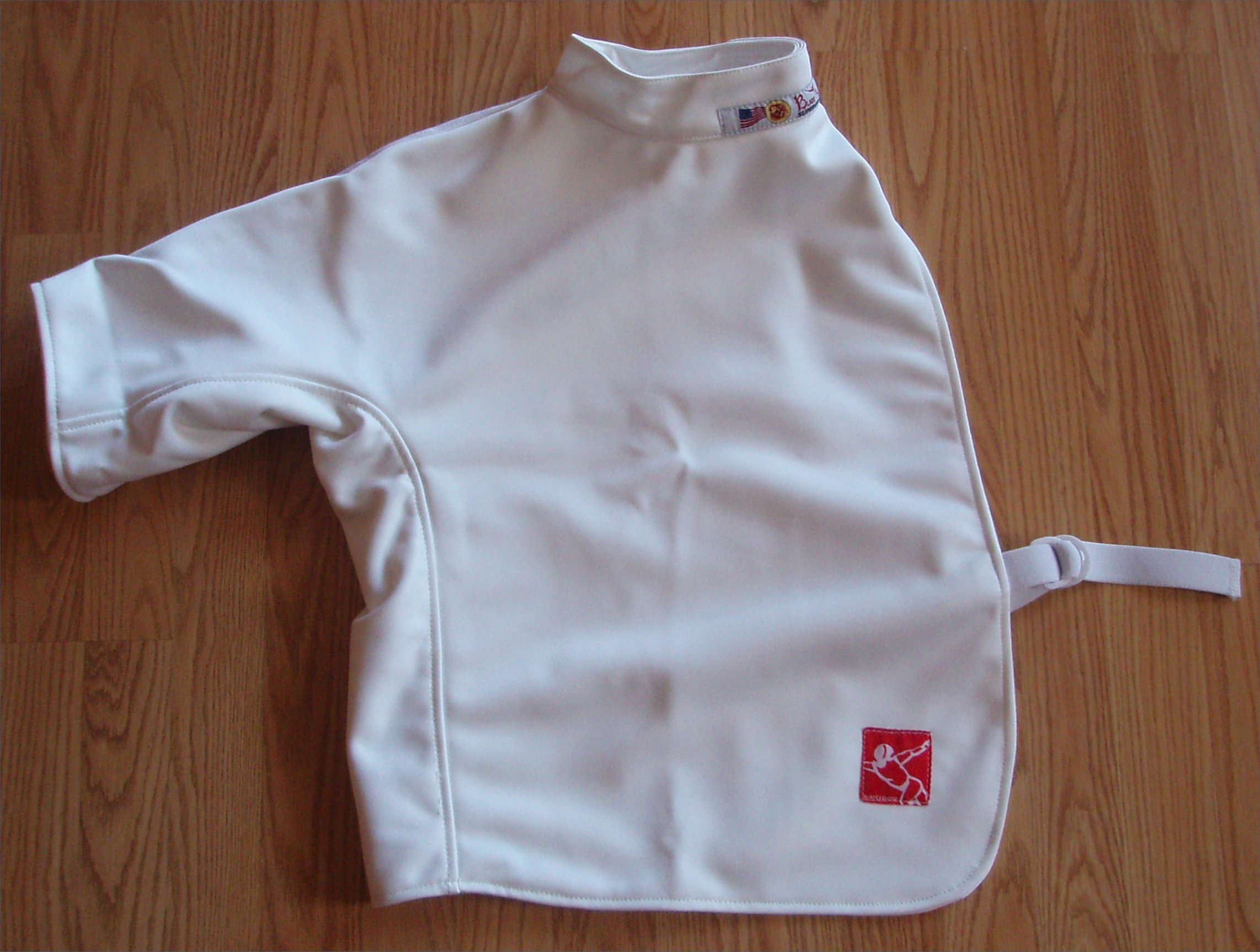 Fencing plastron (underarm protector)